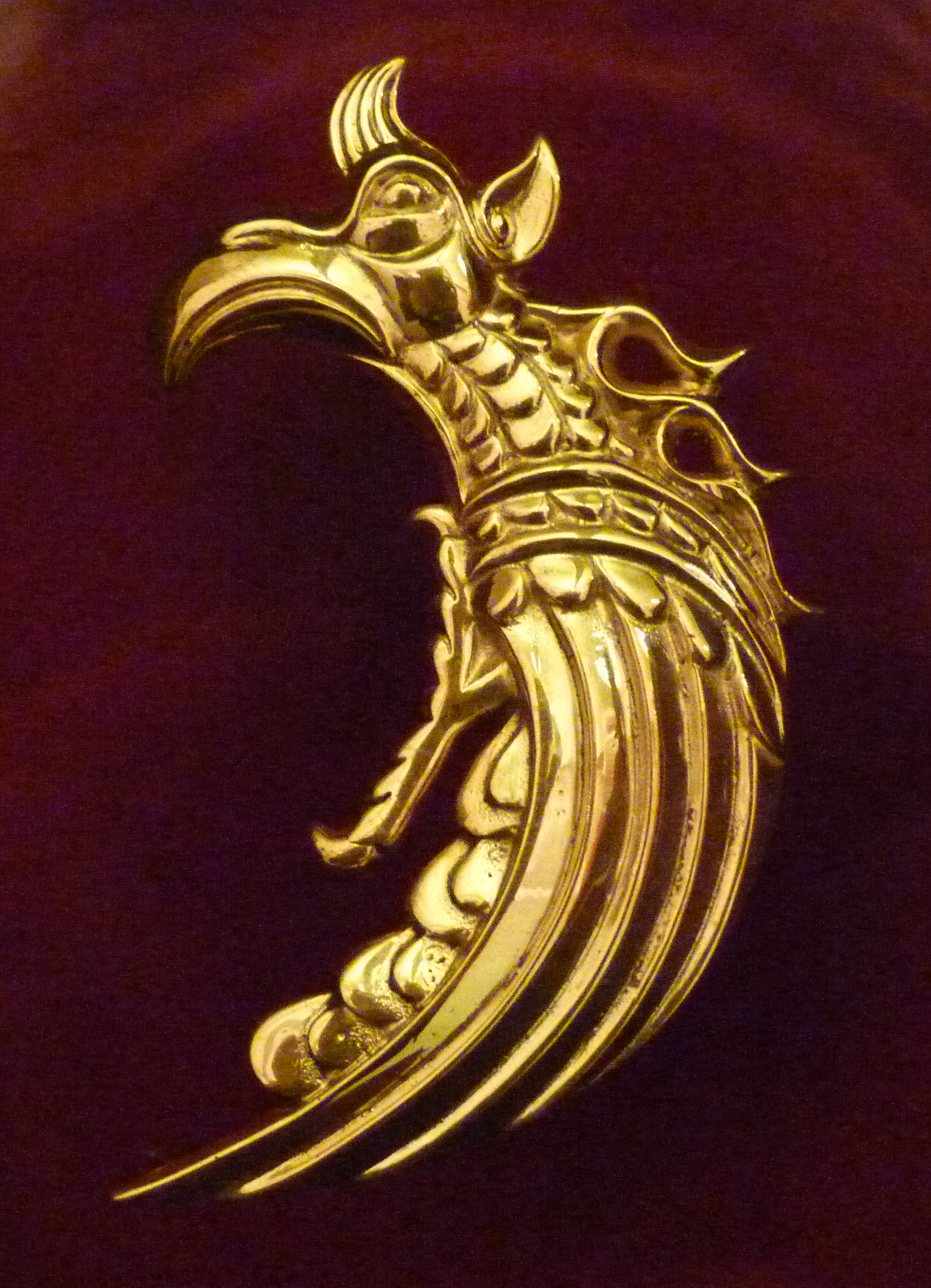 Empire of the Sun. Scytians ! Great, honorable men ! Remember the beginning of your way ! Live on the 13th of November, 2012, Budapest, VAM Design Center. Published under Creative Commons in the Metapolisz DVD line. All of the photos and vids in the Metapolisz DVD line are under Creative Commons and can be used even for commercial - for profit - purposes. Recommended citation: Derzsi Elekes Andor: Metapolisz DVD line Sources: Сенсационной называют свою находку археологи, обнаружившие в Карагандинской области «золотого человека» Sun emperor File:Sun_emperor.JPG Még mindig tagadnunk kell? Szkíta „aranyembert” találtak a kazah régészek A szkíta Napherceg Szkíta kincsekből nyílik egyedülálló kiállítás Budapesten: Badinyi-Jós Ferenc :a tatárlakai korong szövegének megfejtése: „Oltalmazónk! Minden titok dicső Nagyasszonya! Vigyázó két szemed óvjon, Napatyánk fényében!” Szathmáry megfejtése: „Egyetlen, magasztos Teljességünk leáldozóban, de Fény atyánk arca felemelkedik, ismét felragyog, s betölti dicsőségét!”